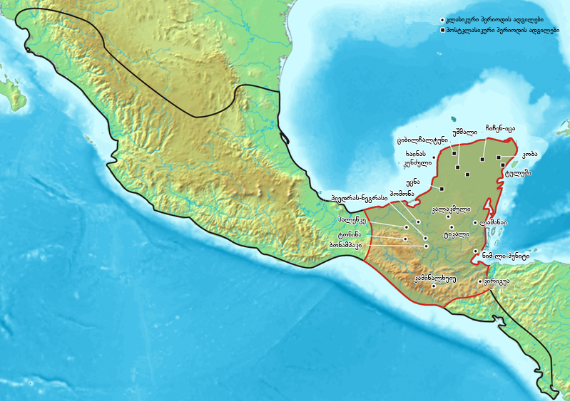 The original image is which is used in the Spanish Wikipedia. This version has the Legend translated to Georgian for use in the Wikipedia of that language.